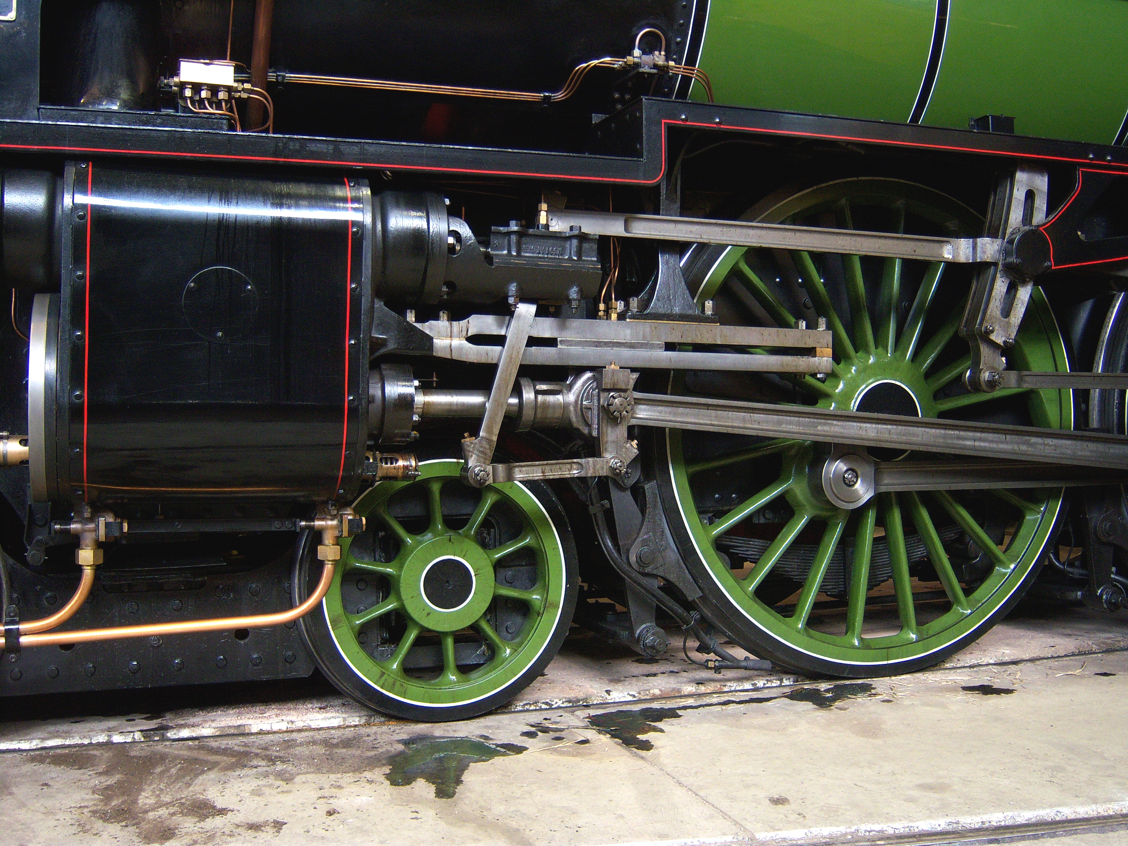 The steam cylinder and crankshaft of brand new steam locomotive 60163 Tornado drips oil on the floor of the main hall of the National Railway Museum, having gone on display for a weekend after completing her first few months of main line tours